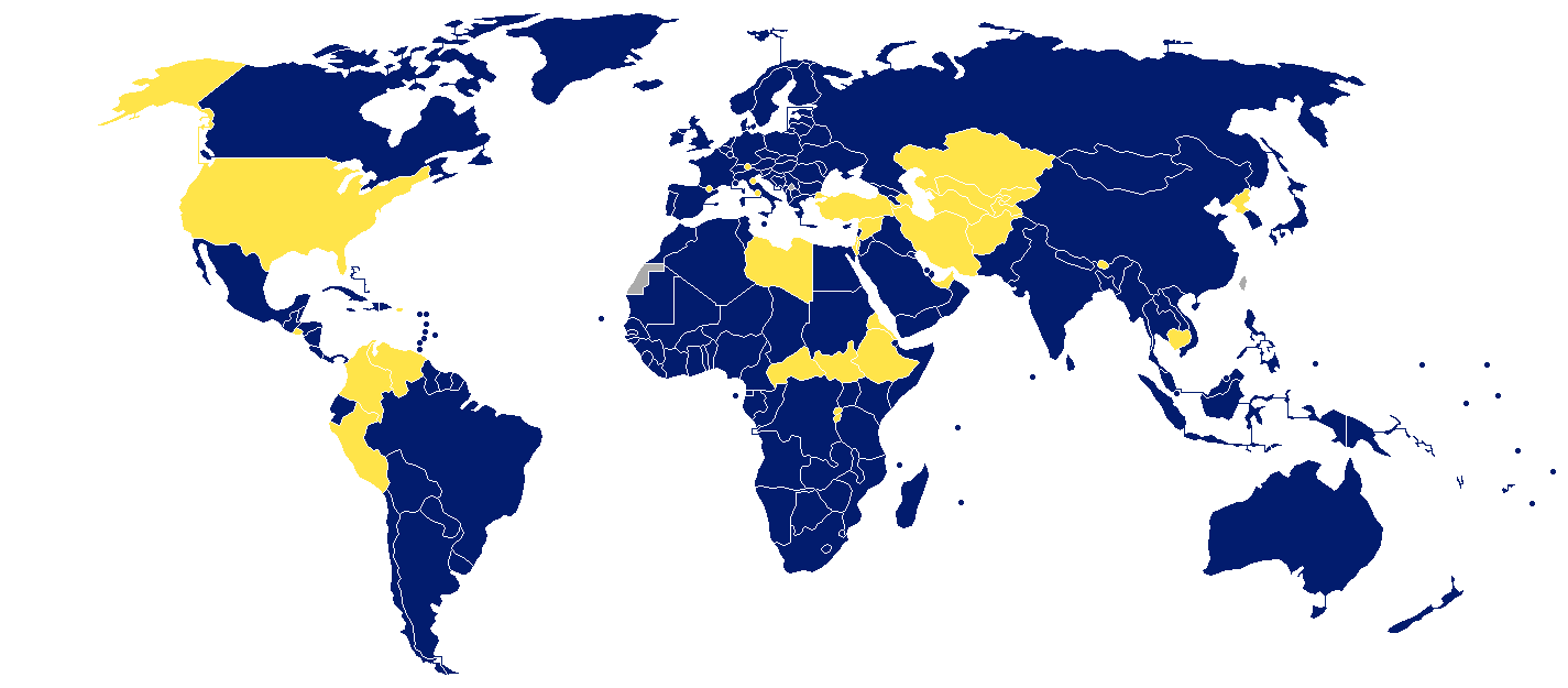 Member (blue) and observer (gold) states of the International Seabed Authority Note: the European Union also holds membership with the authority